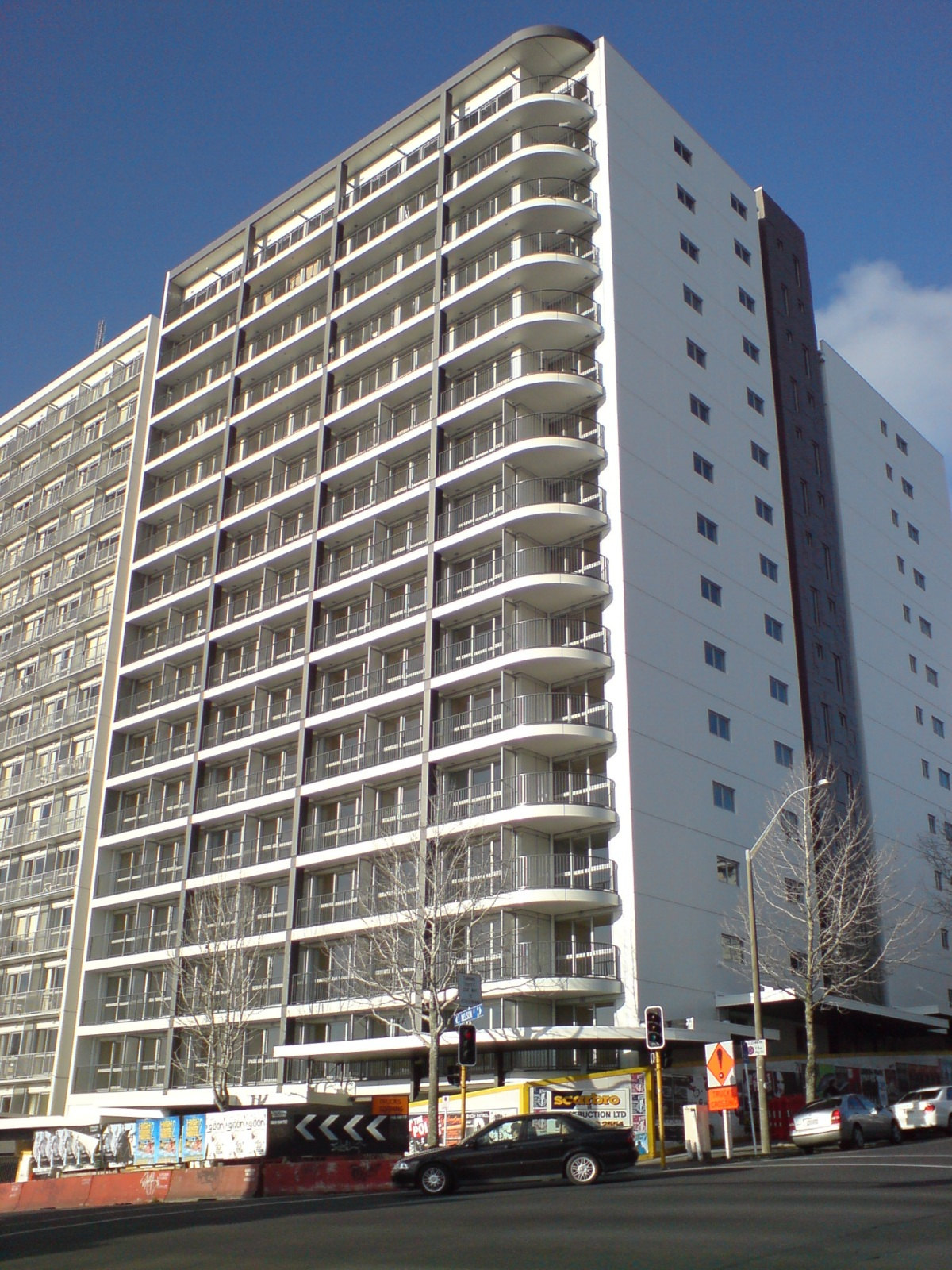 A high-density apartment block building typical for the Auckland CBD as built within the last decade (~1995-2005, though the shown building was finished 2007). Looking northeast from Nelson Street, at the intersection with Cook Street. This is a different view of this photo.